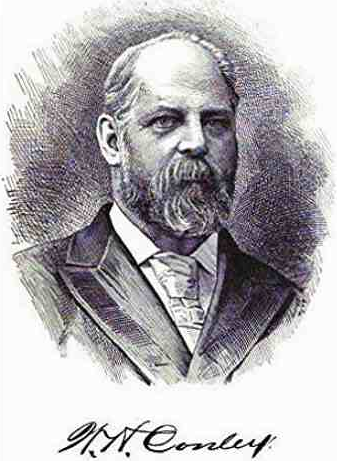 William Henry Conley (1840-1897)